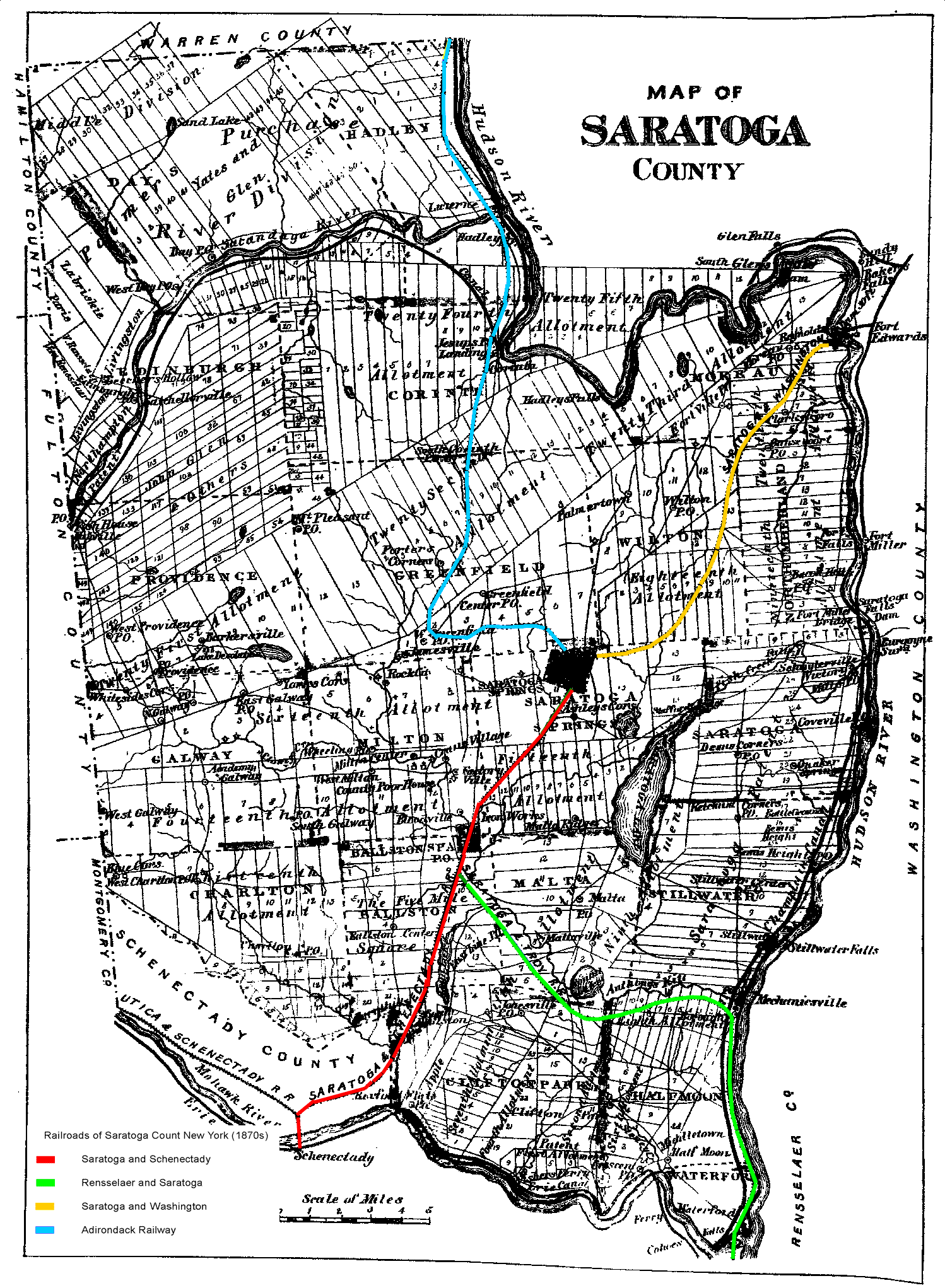 Map of Saratoga County New York in the mid 1800s with rail lines highlighted. Other information Railroad lines highlighted by me with Photoshop.